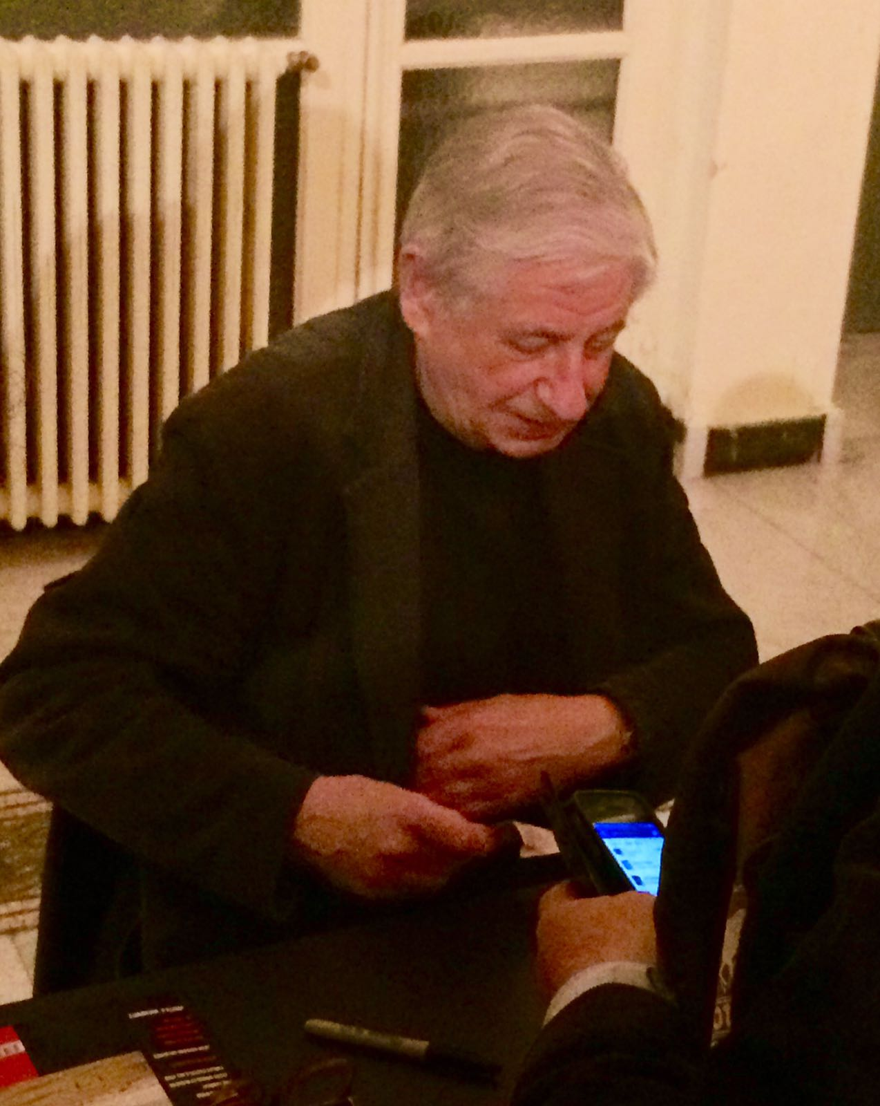 Director Tony Palmer during the screening of his documentary, Bird on the Wire in the Círculo de Bellas Artes of Madrid, Spain, as part of the homage of the musician Leonard Cohen